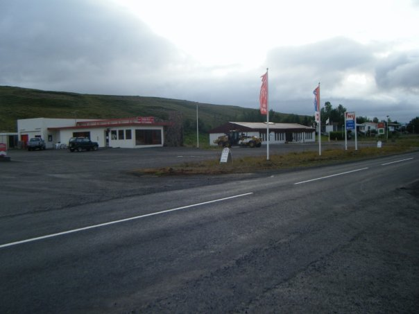 A small village in Iceland - picture from 2009